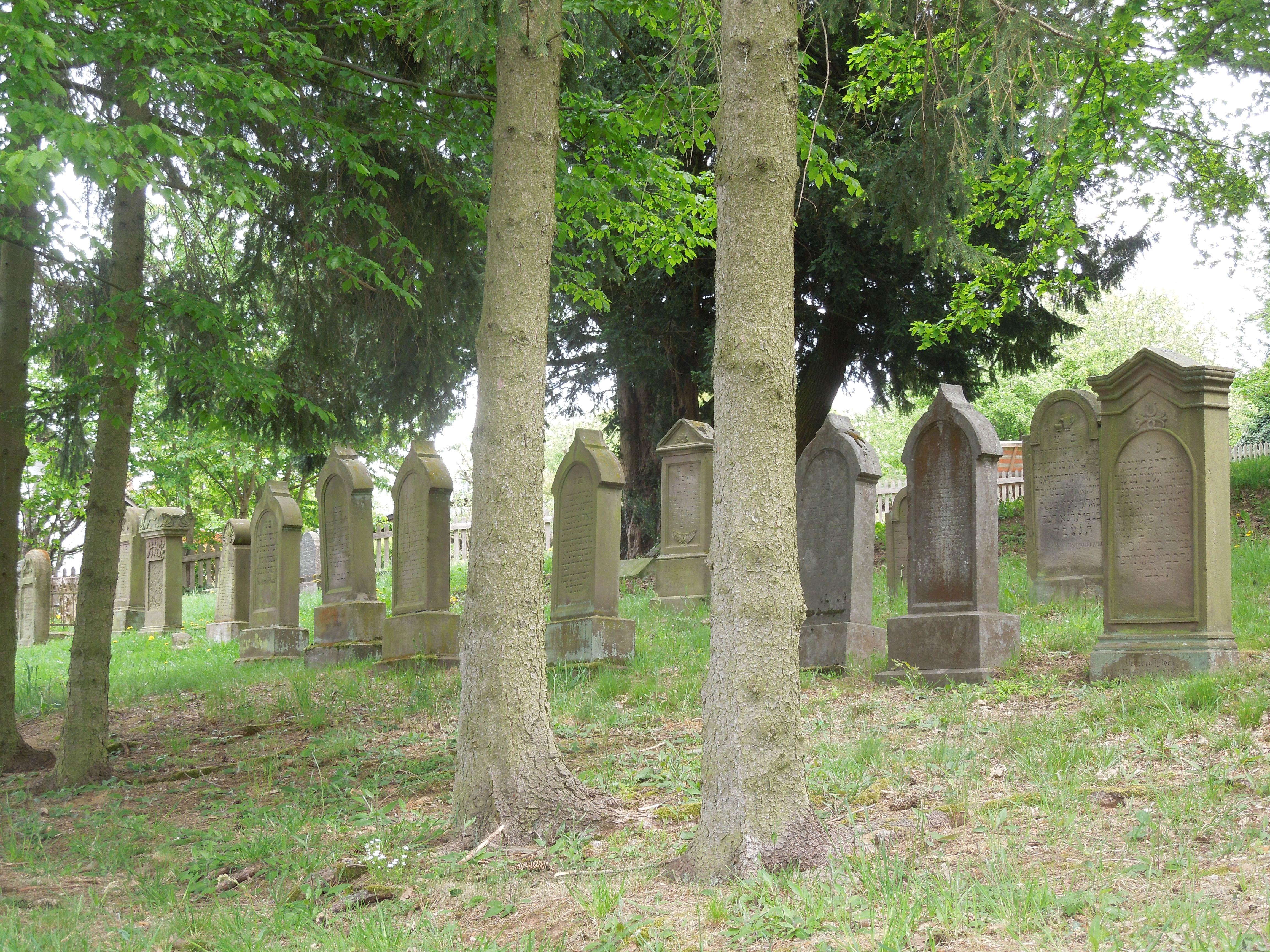 Jewish cemetery in Ungedanken